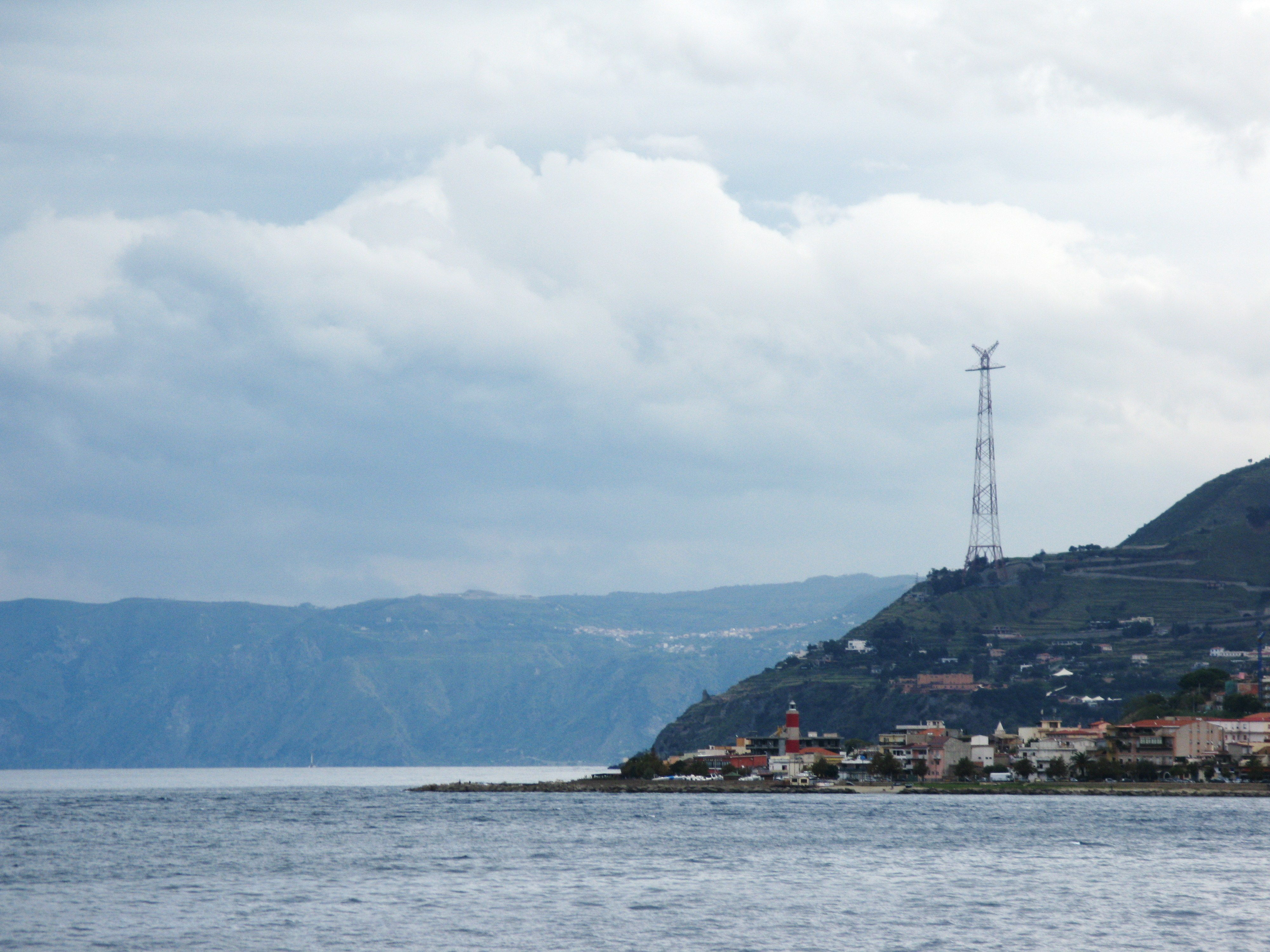 Punta Pezzo Lighthouse and Pylon of Santa Trada - Italy - Oct. 2009